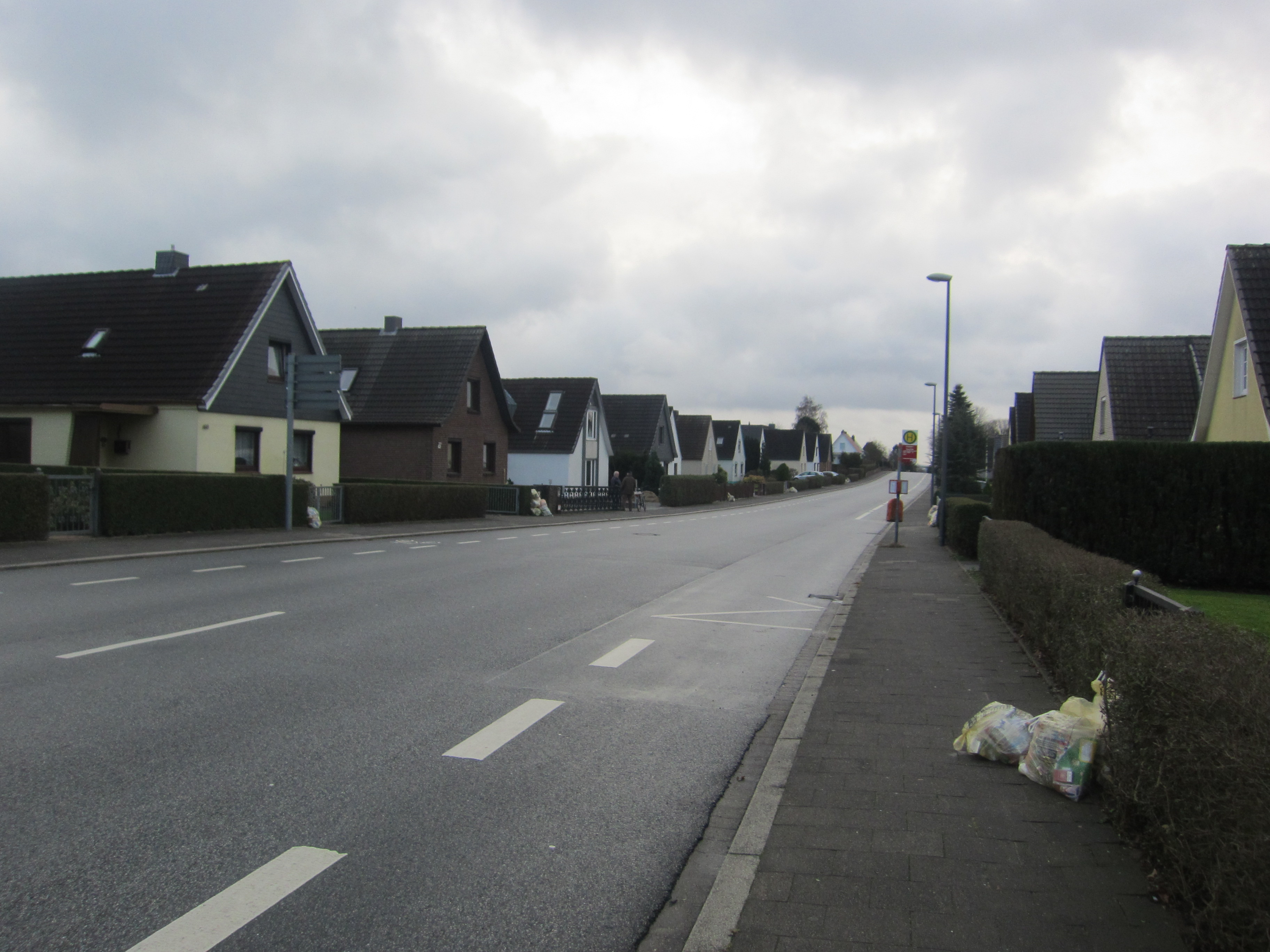 Ottomar-Enking-Straße, Kiel-Pries